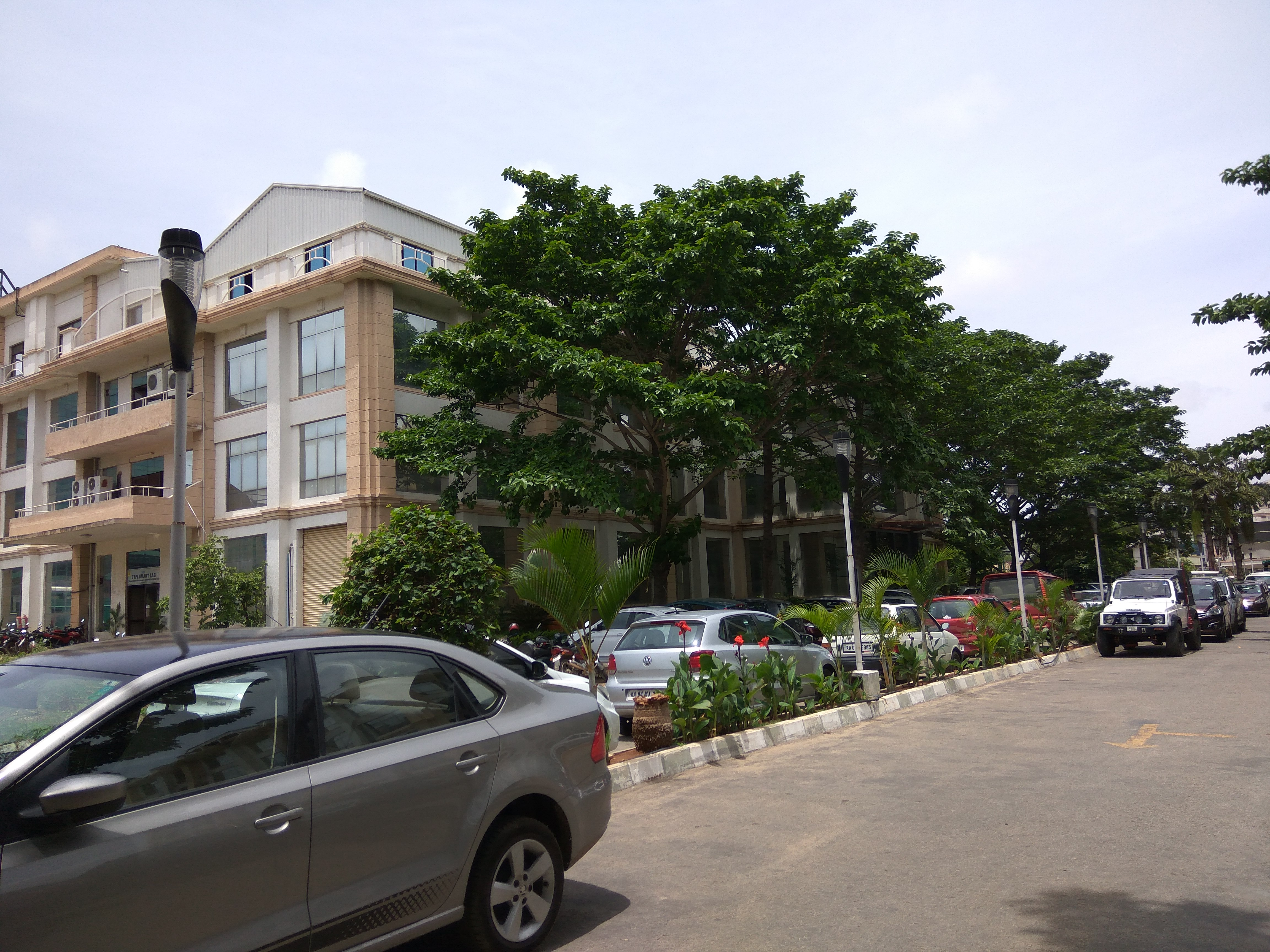 tessolve building view